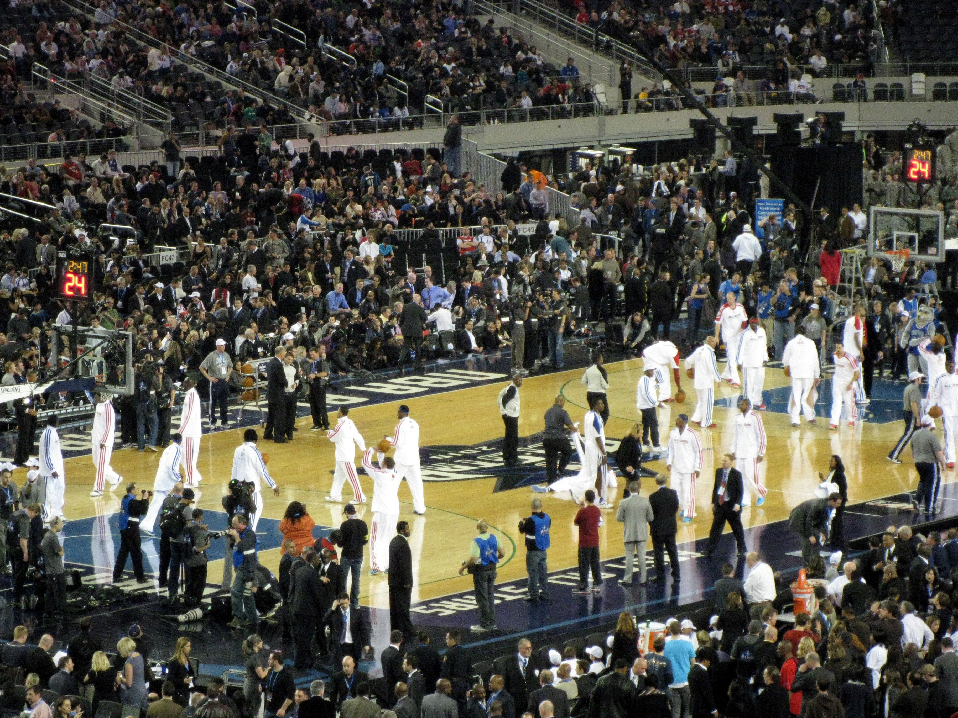 Players of the en:2010 NBA All-Star Game